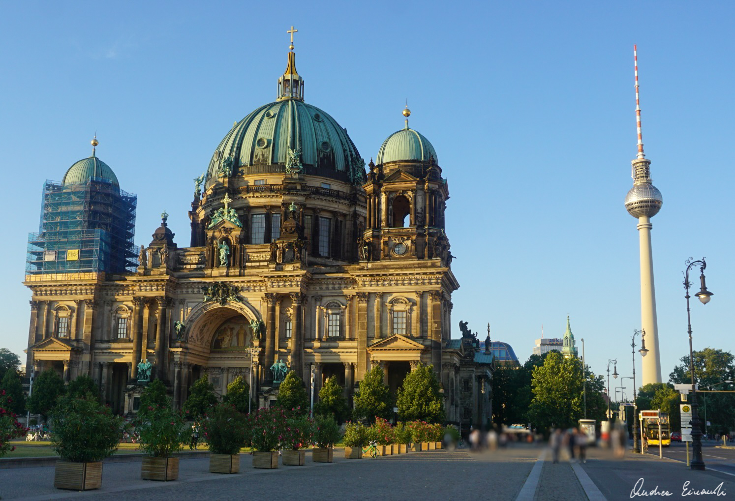 Berlin cathedral (left) with the Fernsehturm (right) in the background